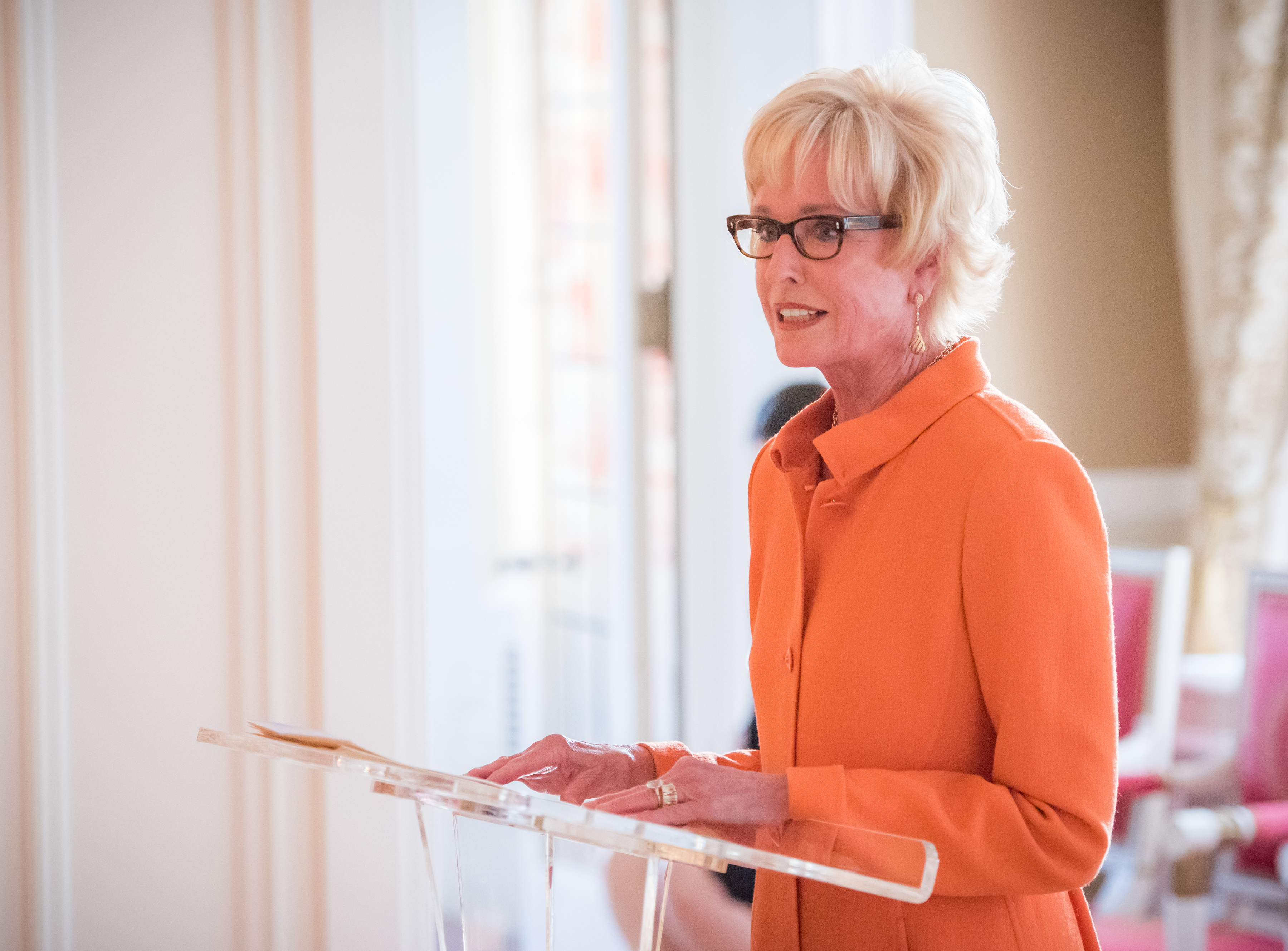 Coach Kathy Kemper speaking at an Institute for Education event.